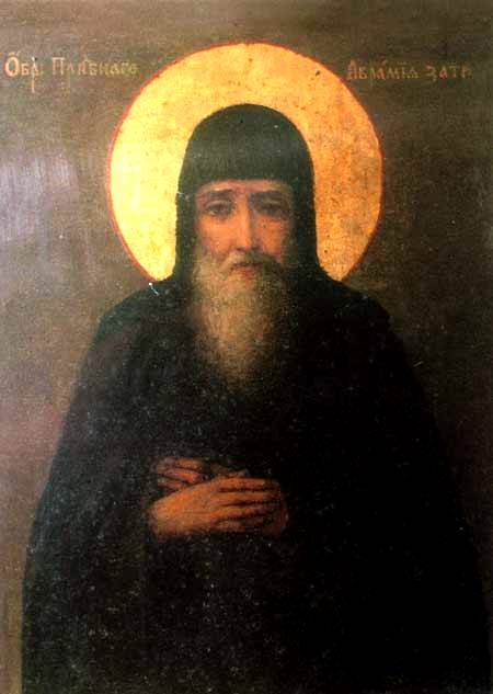 Saint Abraham, hermit at Kyiv Caves monastery, Ukraine. Orthodox saint. 12-13 centuries.